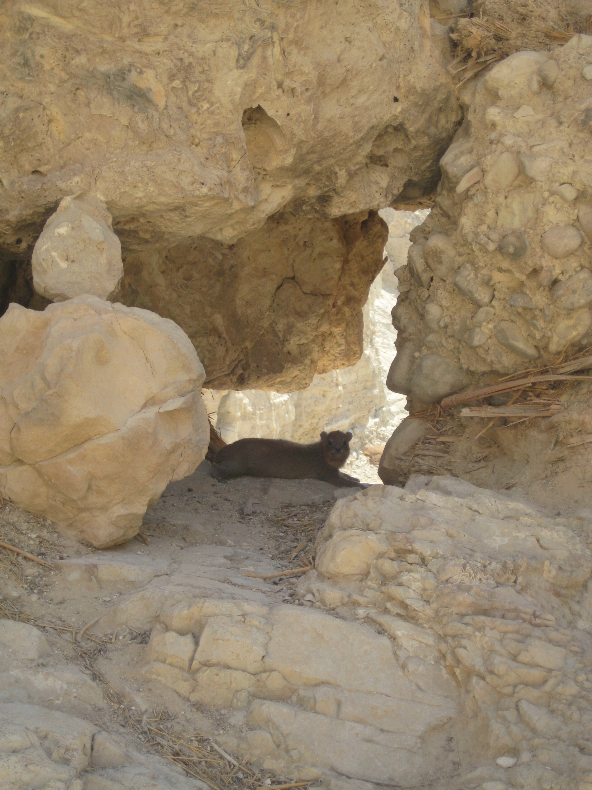 Rock rabbit found some shade